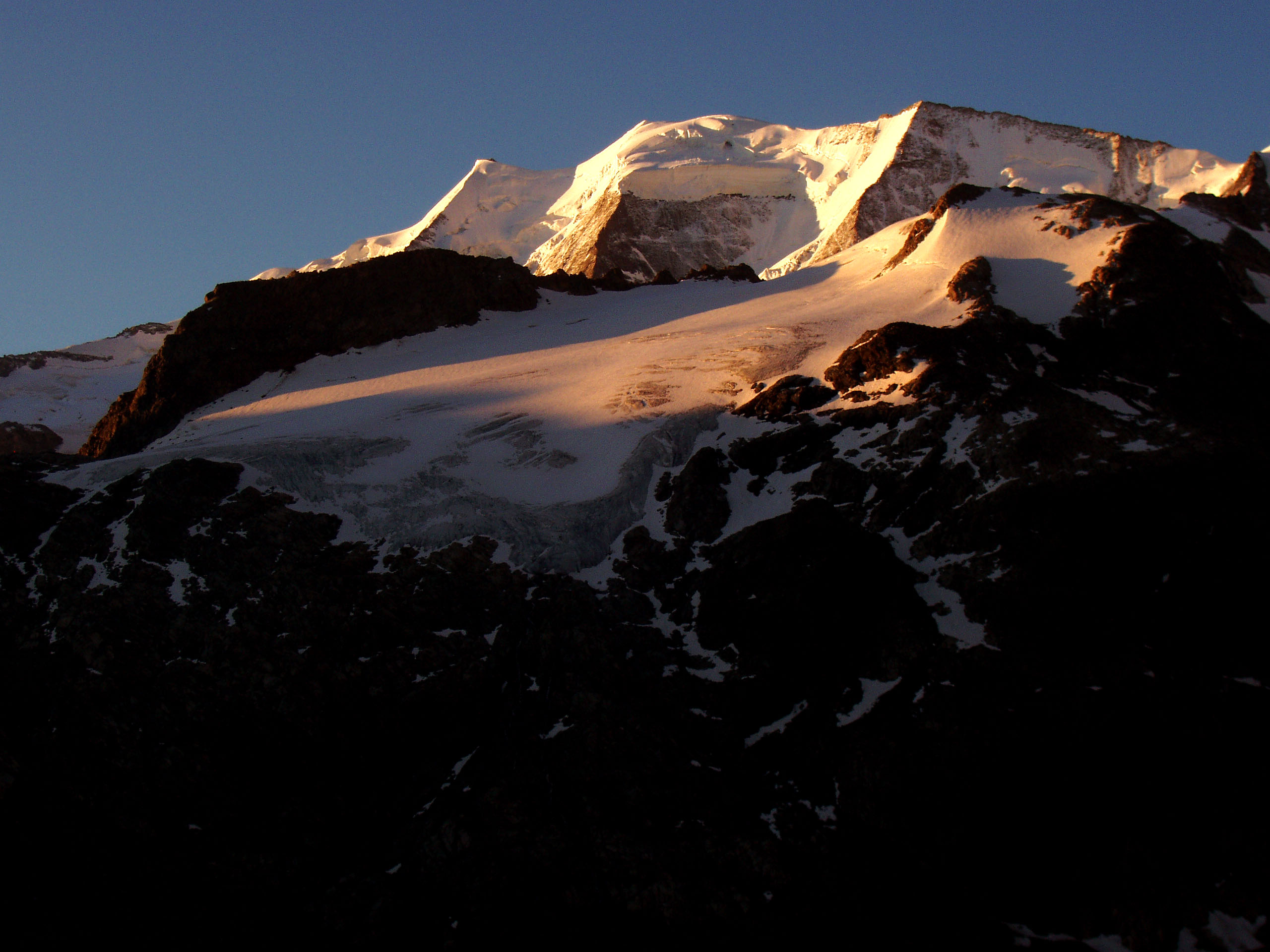 Sunrise on Piz Palü, 06/30/2005. Photo was taken from Boval-hut, 2.495 m.